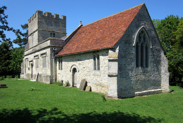 Photograph of St Bartholomew's Church, Furtho